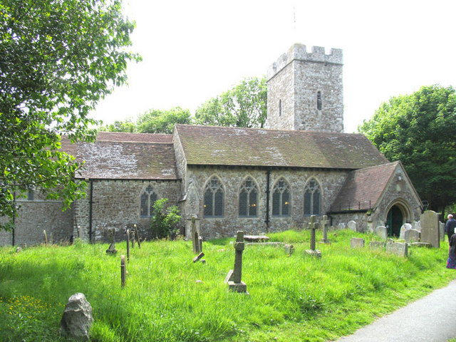 St Martin's parish church, Cheriton, Kent, seen from the northeast